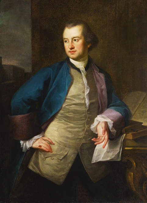 A portrait of Revolutionary-era physician John Morgan, founder of the first medical school in the United States.